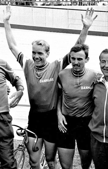 Per Lyngemark and Reno Olsen (right) at the 1968 Olympics